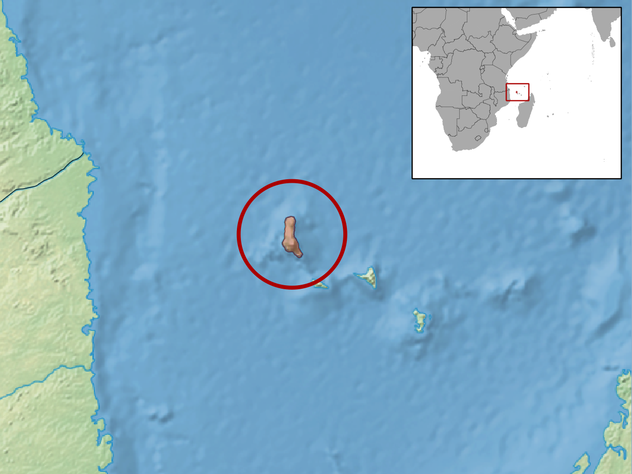 geographic distribution of Cryptoblepharus ater